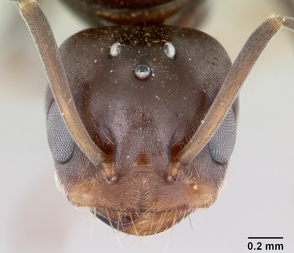 Head view of ant Dorymyrmex brunneus specimen casent0173844.